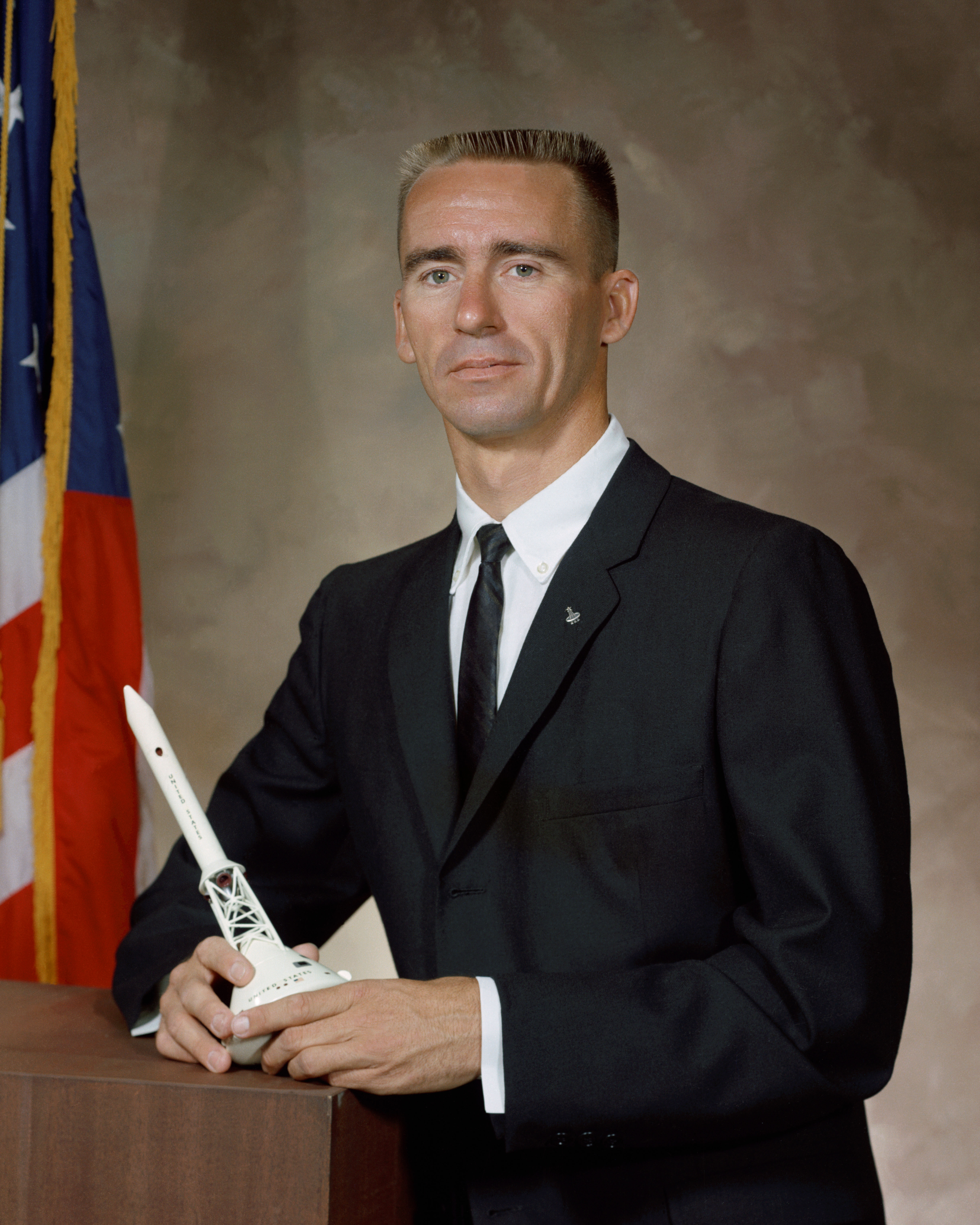 Portrait of astronaut Walter Cunningham.